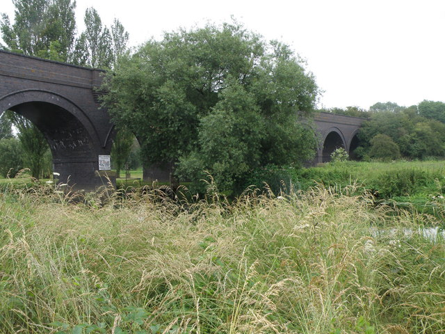 Railway viaduct, Thrapston The viaduct carried the Kettering to Huntingdon railway line. Believed to have closed in 1959. for a history of railways around Thrapston.